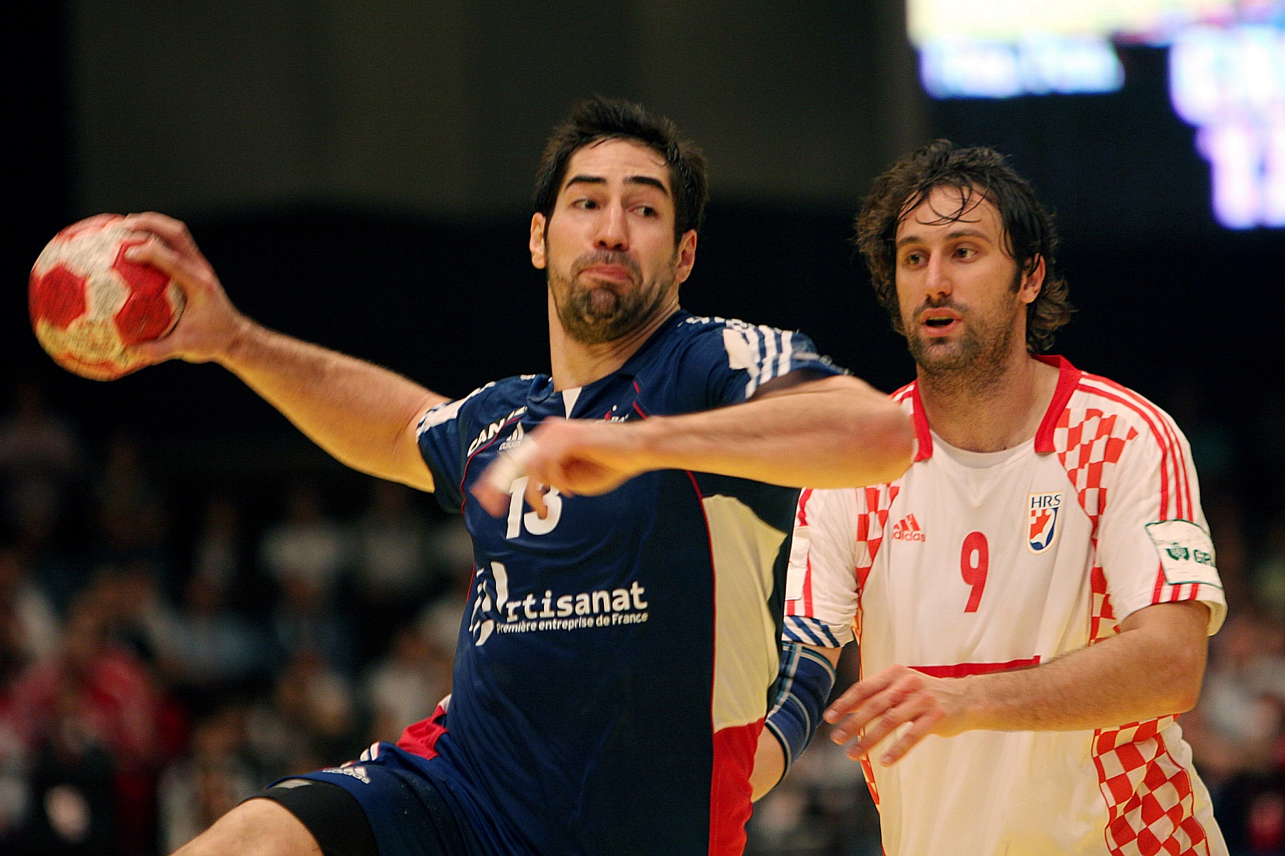 Nikola Karabatić (Montpellier HB), France national handball team scores, Igor Vori (HSV Hamburg), Croatia national handball team, is too late.